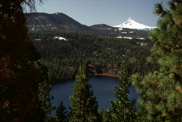 Blue Lake Crater in the foreground is one of three overlapping explosion craters located east of Santiam Pass. Snow-covered Mount Washington is behind the lake.